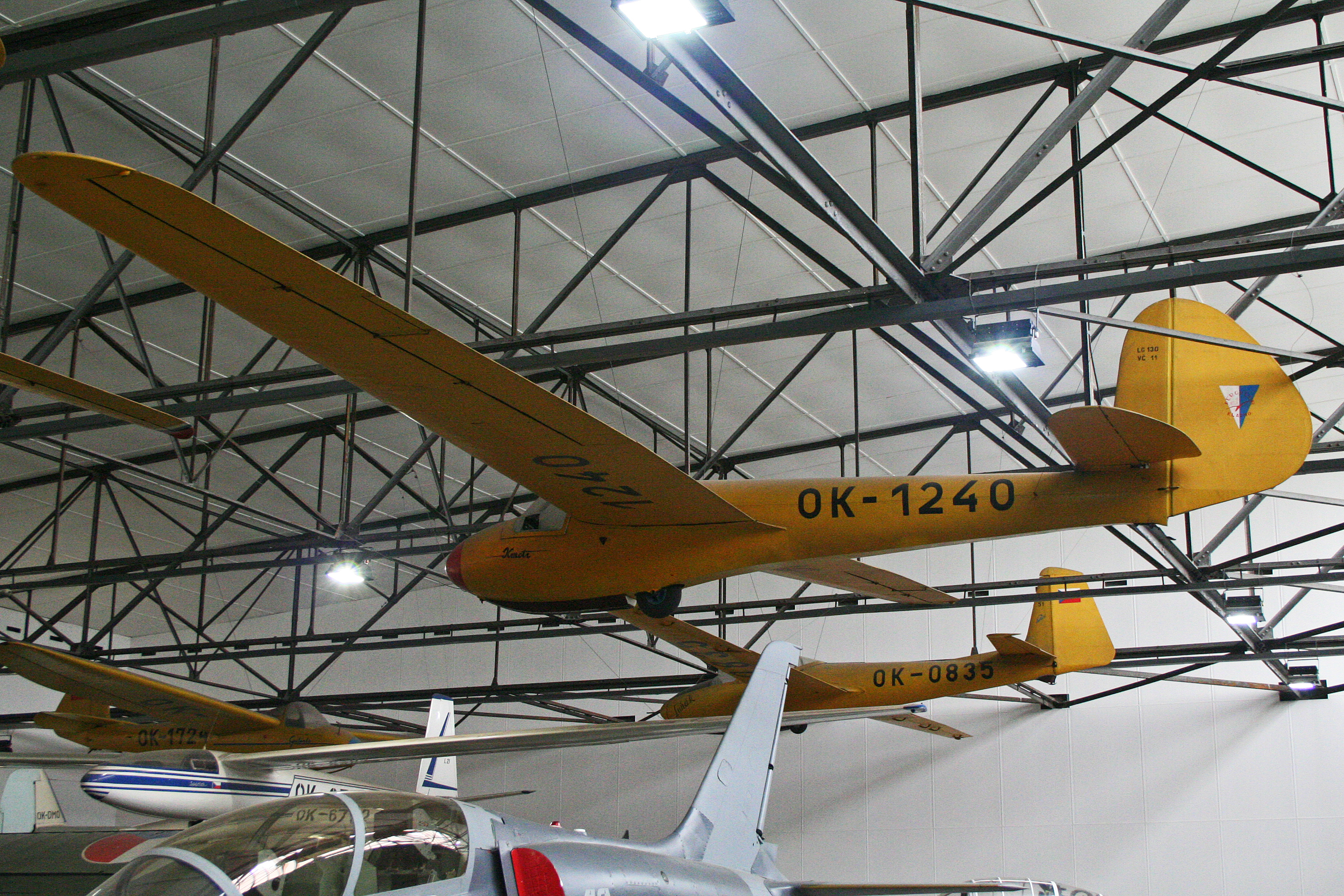 The museum has a second LG-130 in store. msn 11. On display in the Post War Hangar, Kbely museum, Czech Republic. 07-10-2012